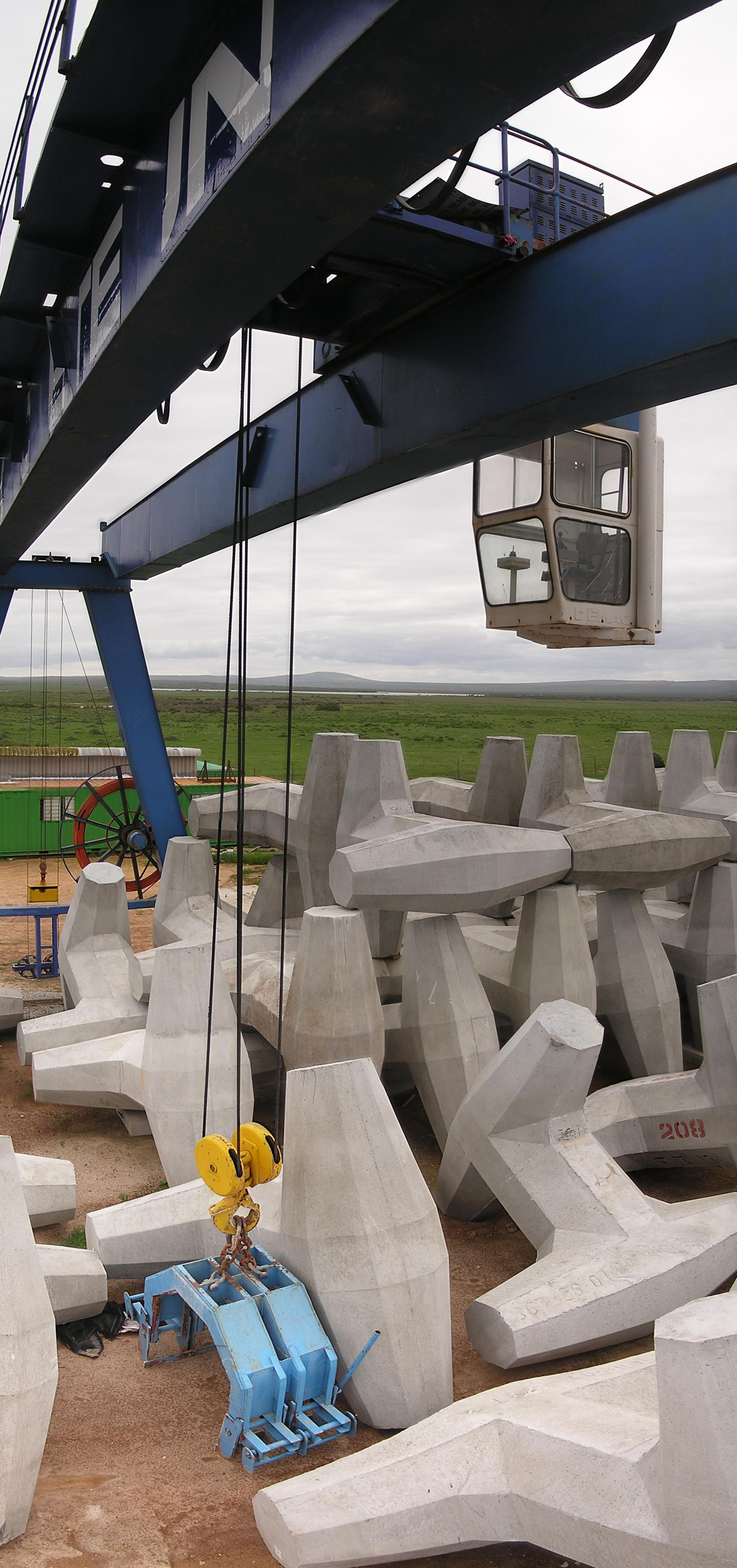 Author: Adriaan Wessels Date: 9 September 2007 Location: Yzerfontein, South Africa, just off R27